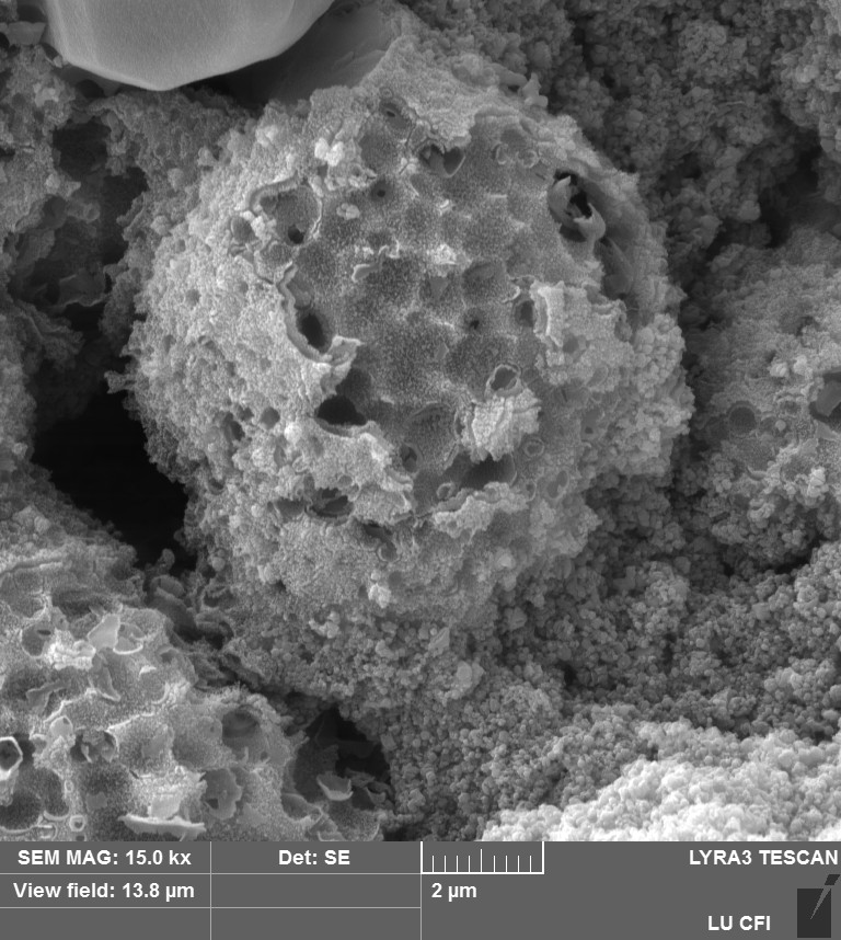 Cabbage grown from TiO2